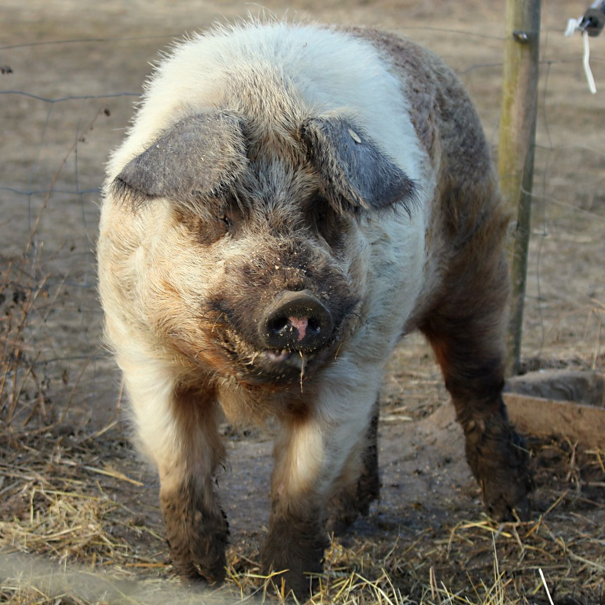 Four year old male Husumer Protestschwein »Frederick«. Frederick belongs to the Nature Life Ranch in Schwabenheim, Germany.